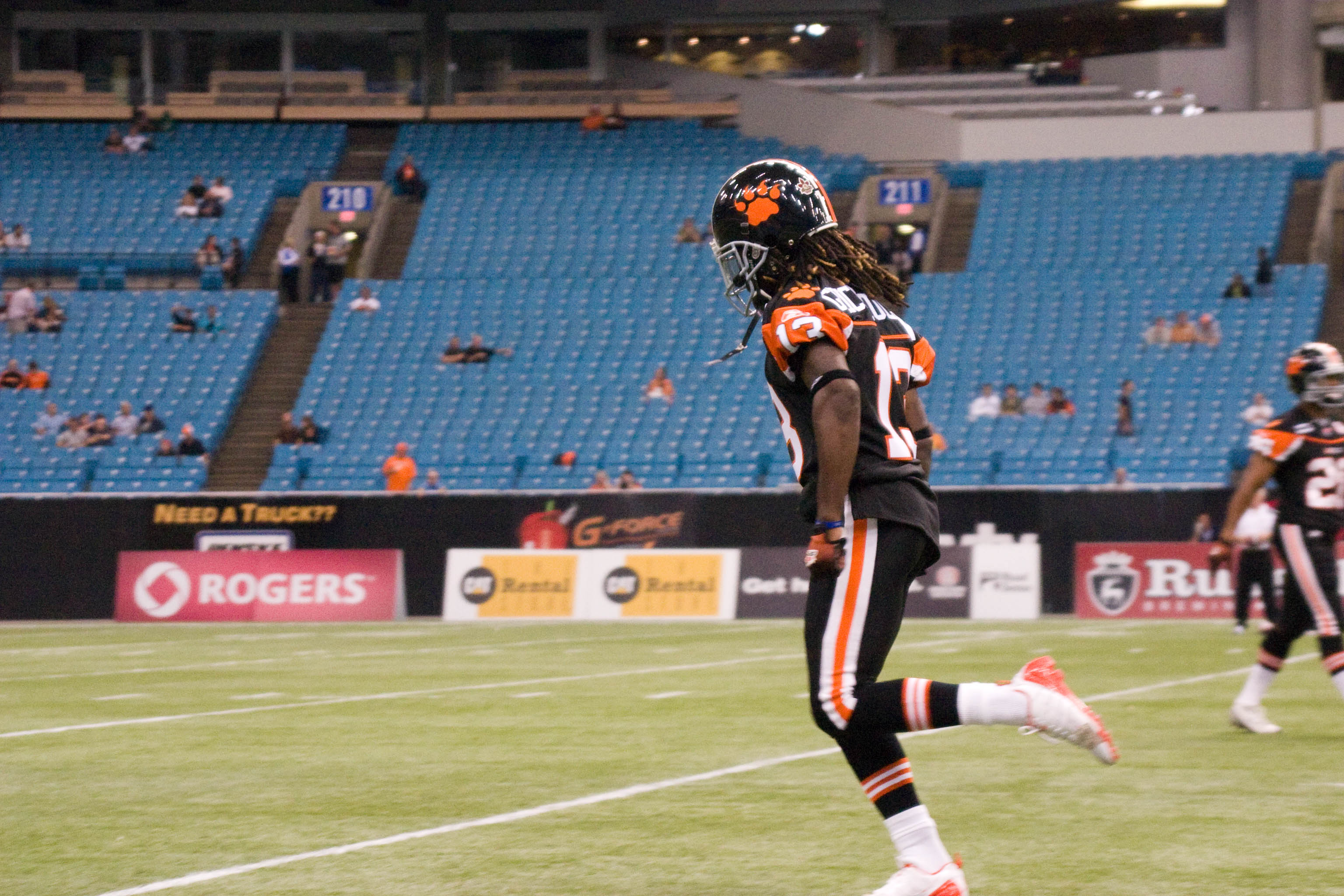 Ryan Grice-Mullen warming up before a game.